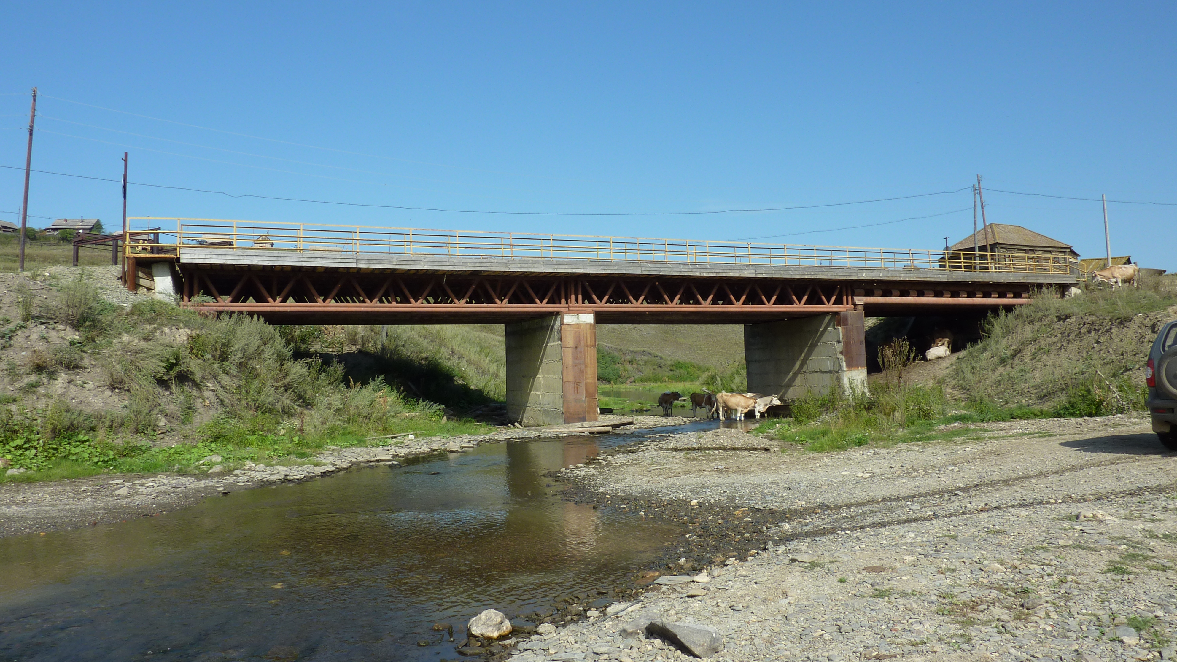 Bridge over the Kana in the village of Kananikolskoe in Zilair rayon of Bashkortostan.